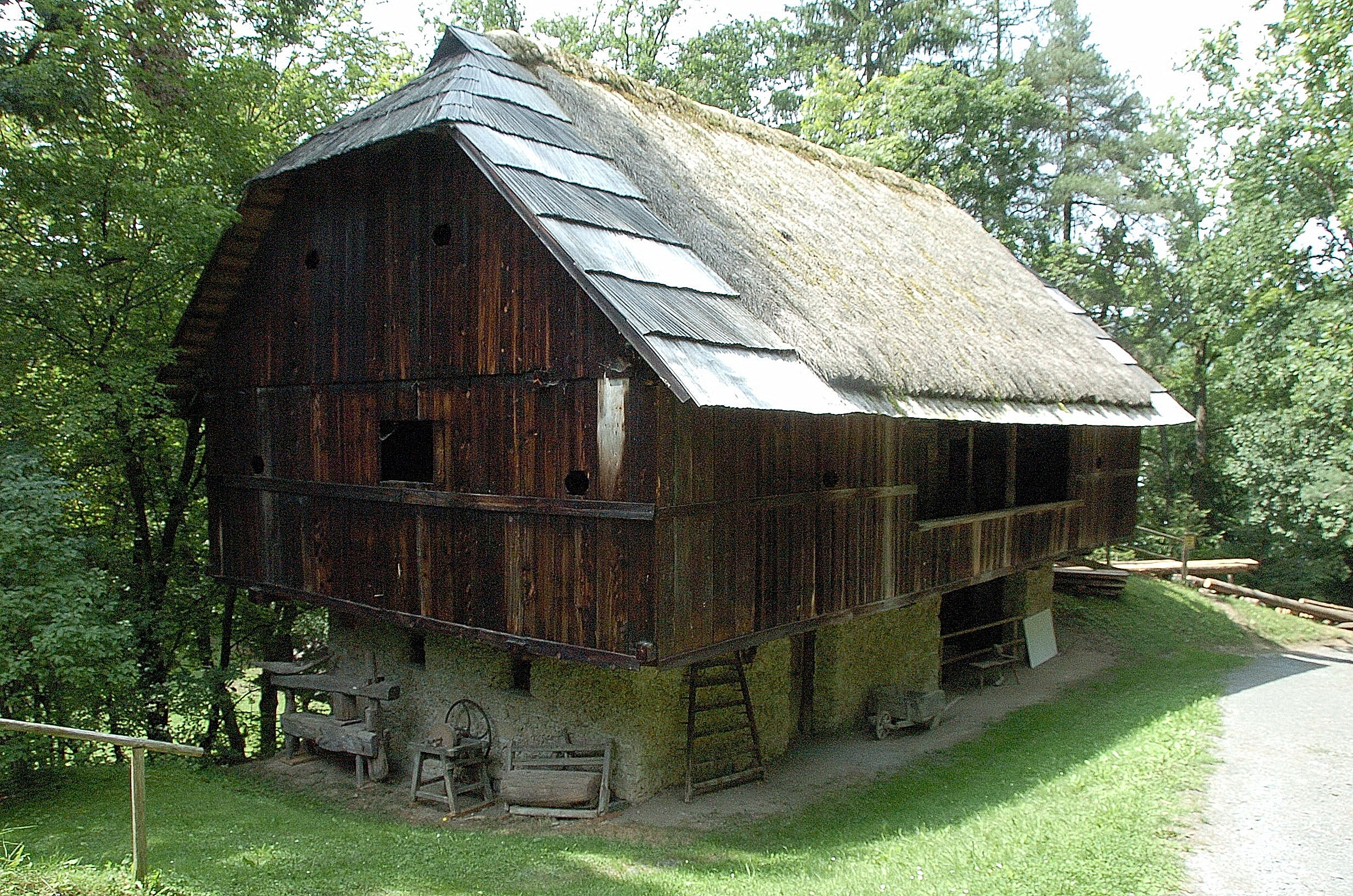 Skorjanz barn (historic farmhouse), open air museum, market town Maria Saal, district Klagenfurt Land, Carinthia, Austria, EU